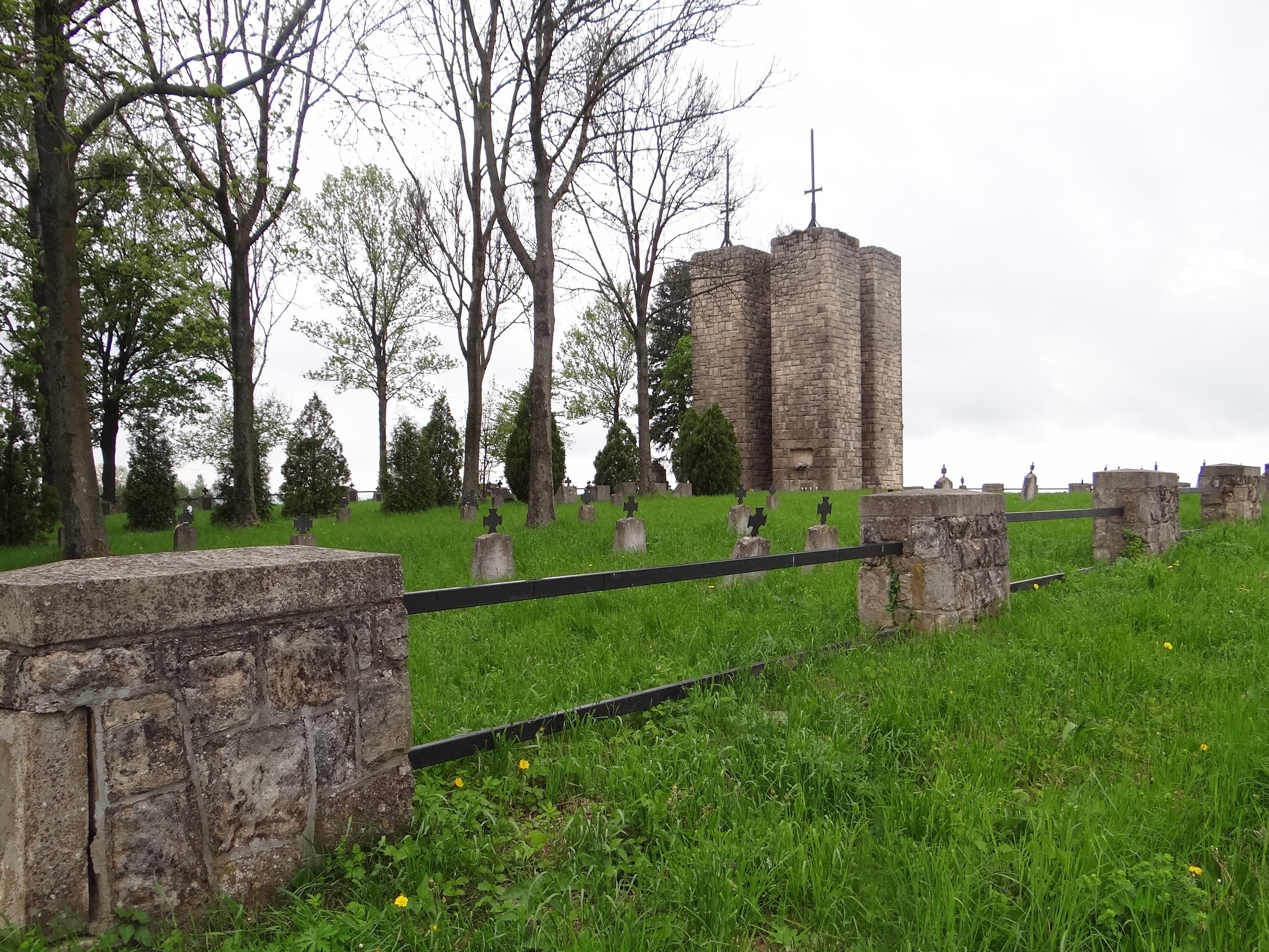 World War I Cemetery nr 118 in Staszkówka